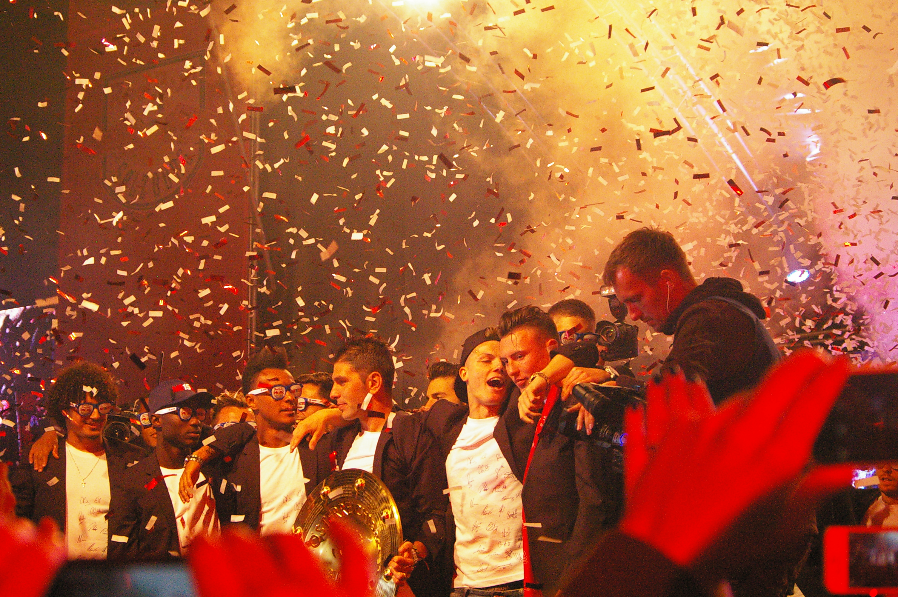 Celebration of the 6th title 2015